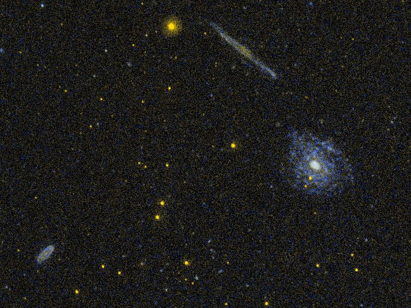 NGC 5963 (right), NGC 5965 (top), NGC 5971 (bottom-left) galaxies on GALEX